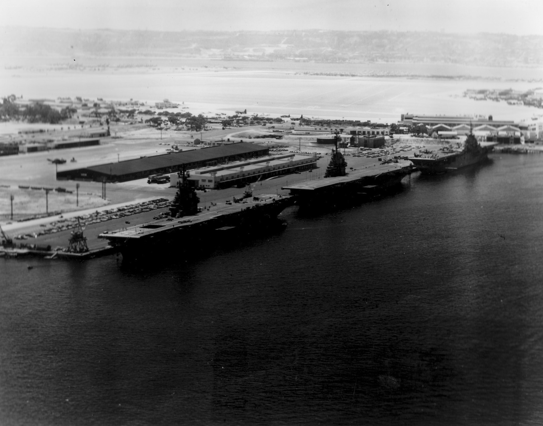 Three U.S. Navy Essex-class aircraft carriers tied up end to end along the quay wall of Naval Air Station (NAS) San Diego, California (USA), circa 1954-55. Pictured from left to right are USS Hancock (CVA-19), USS Kearsarge (CVA-33) and USS Princeton (CVS-37). This marked the first occasion that three Essex-class carriers were tied up at the San Diego base. Princeton was unmodernized, Kearsarge had received the SCB-27A modernization (1950-52) and Hancock SCB-27C (1951-54).